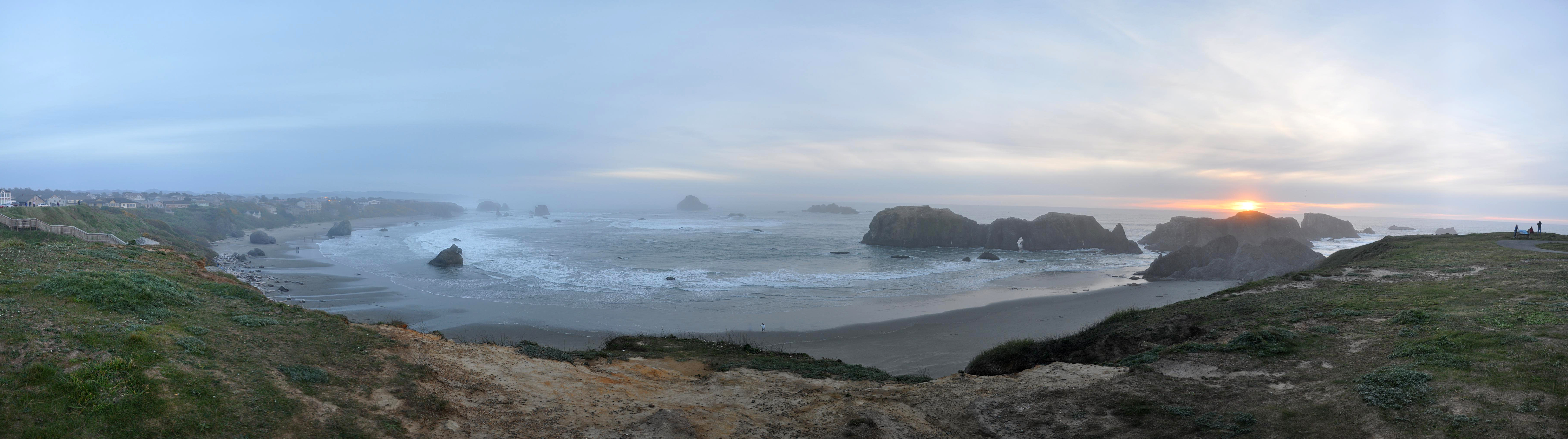 Sunset panorama from Coquille Point in Bandon in the U.S. state of Oregon. View is to the west over the Pacific Ocean and part of the Oregon Islands National Wildlife Refuge. Originally 13 horizontal images.